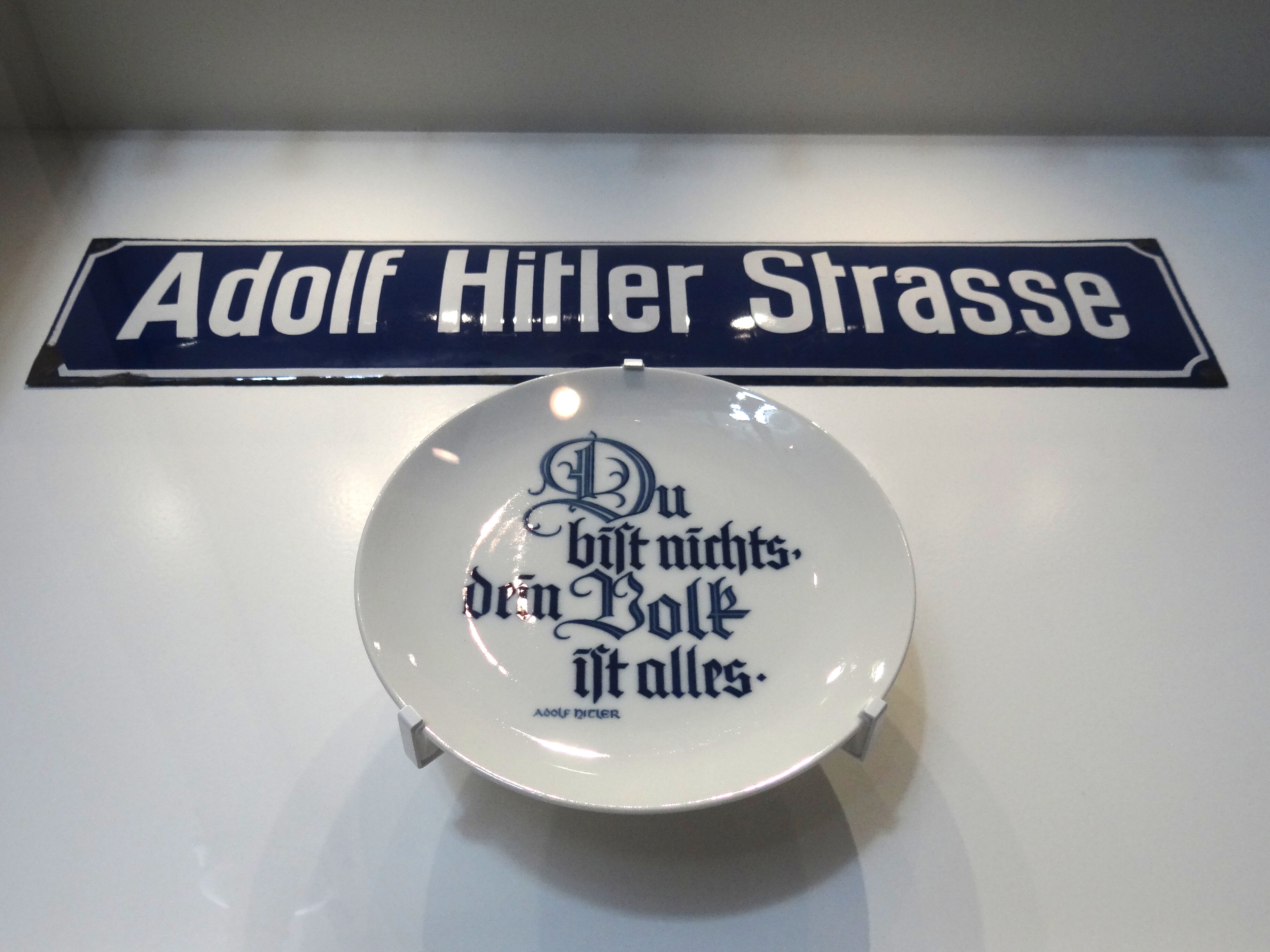 You Are Nothing-Your Nation Is Everything - Plate with Sign for Adolf Hitler Street - Military Museum - Dresden - Germany